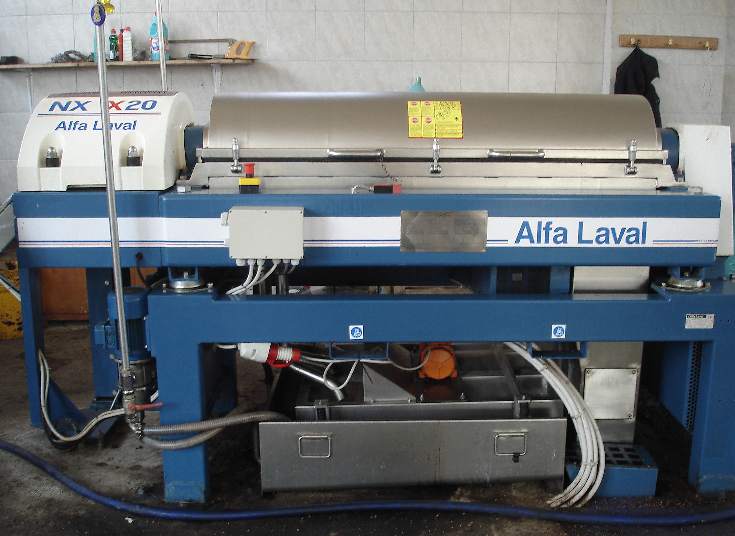 The centrifuge for separating the liquid (olive oil and water) from the dried pulp.